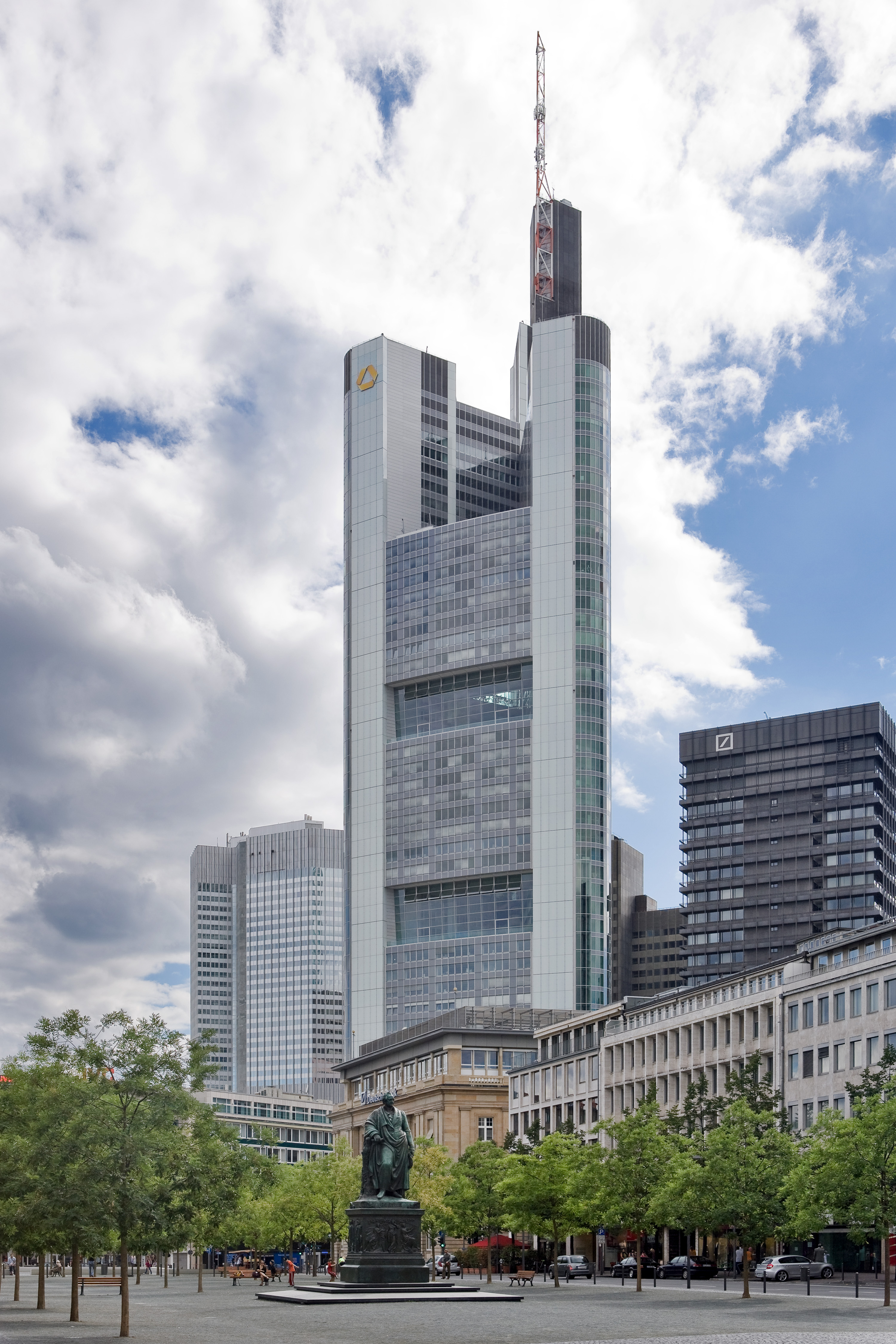 Frankfurt on the Main: Commerzbank Tower as seen from the Rathenauplatz (Rathenau Square)